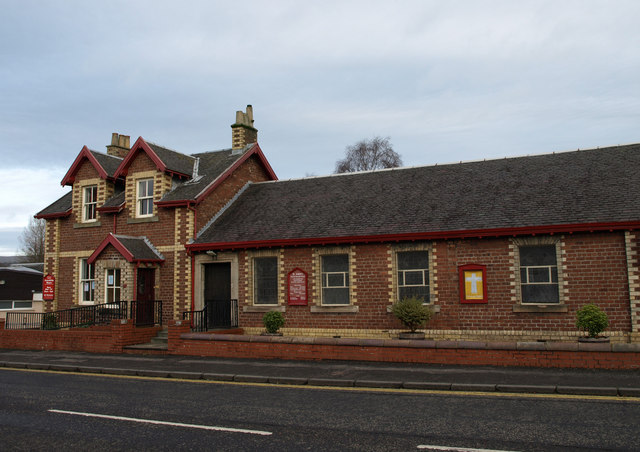 Friendship House, Milngavie St. Andrew's Episcopal Church.